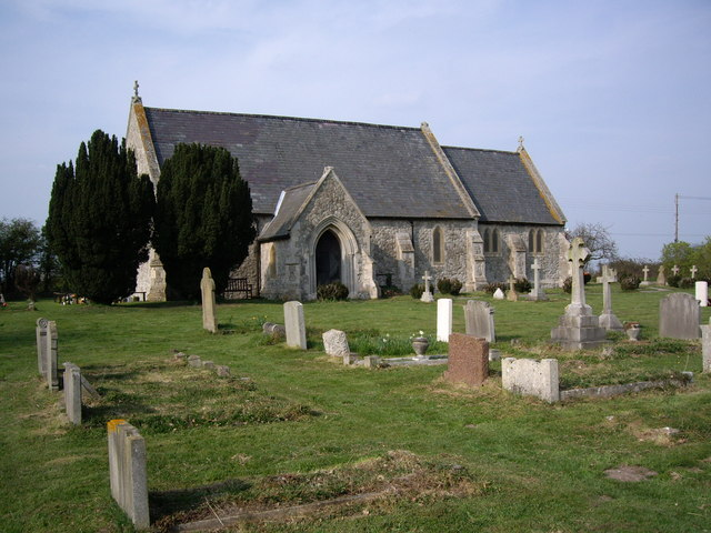 St. Barnabas Church Mayland Hill